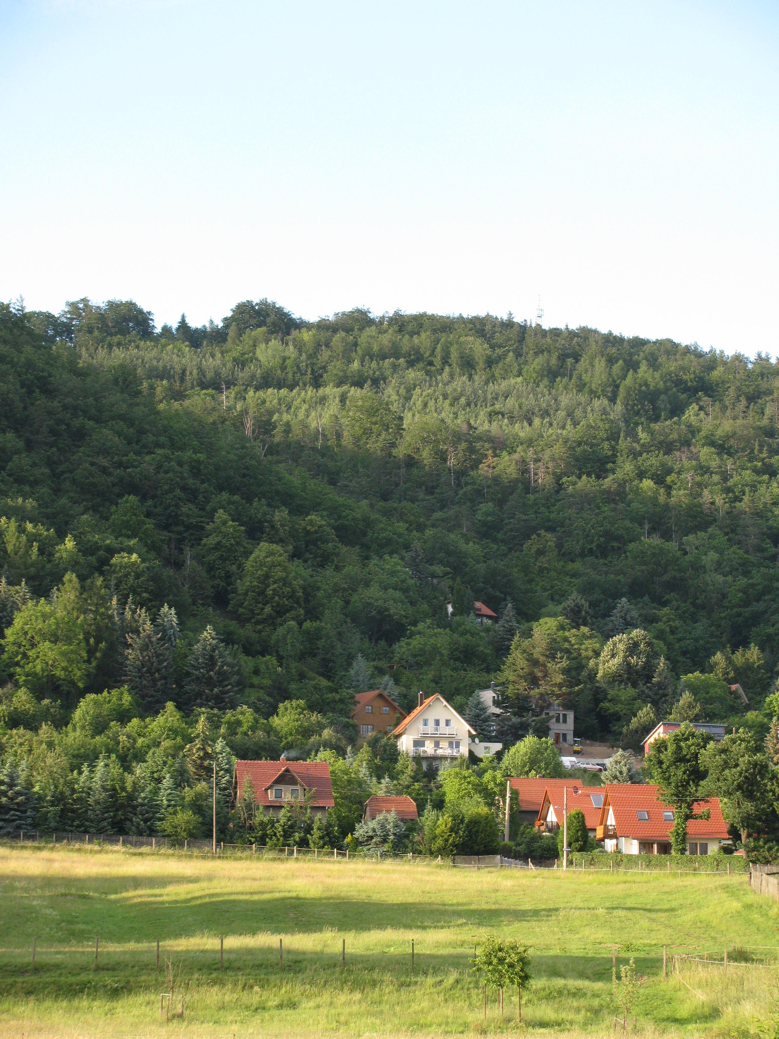 Borsberg Mountain near Dresden-Oberpoyritz, Saxony, Germany